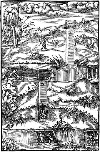 Woodcut from De re metallica by Georgius Agricola (1556)